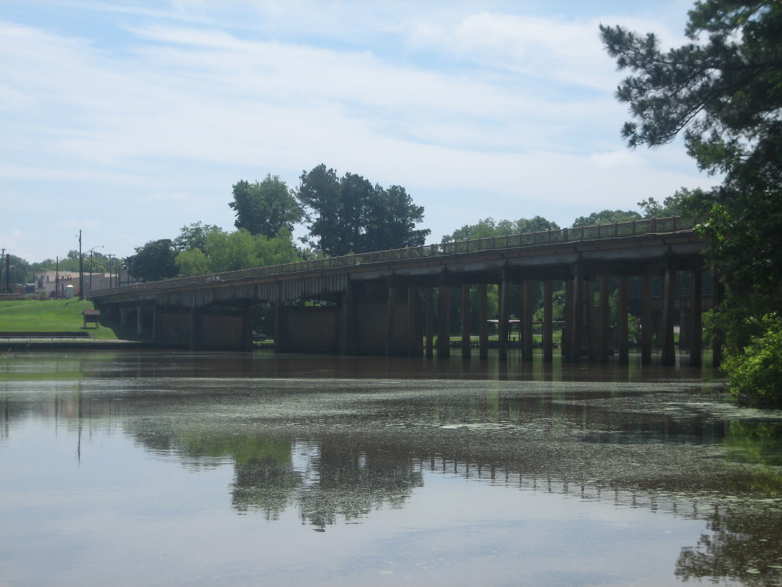 I took photo on May 27, 2009.